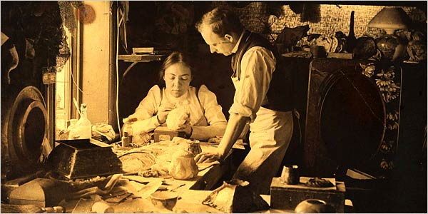 Clara Driscoll in a workroom with Joseph Briggs, another Tiffany employee (1901).